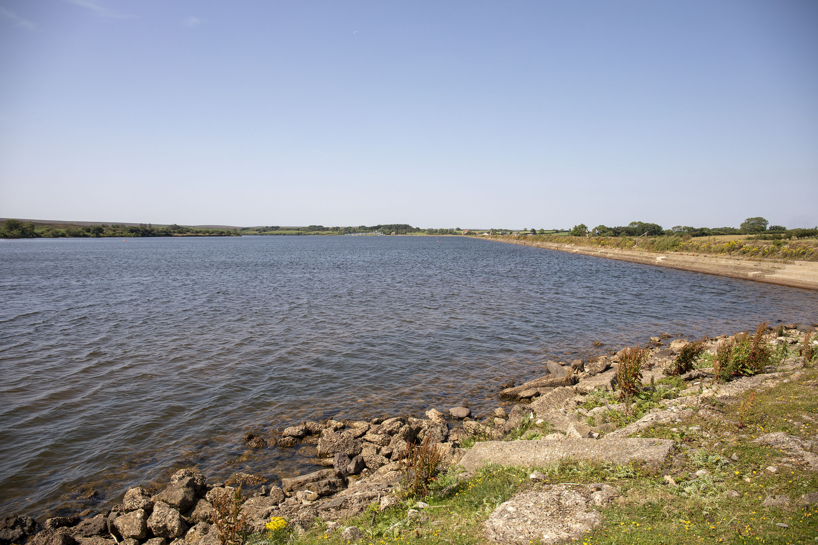 An image of Scaling Dam Reservoir taken from the east. The long dam runs along the right hand side of the image